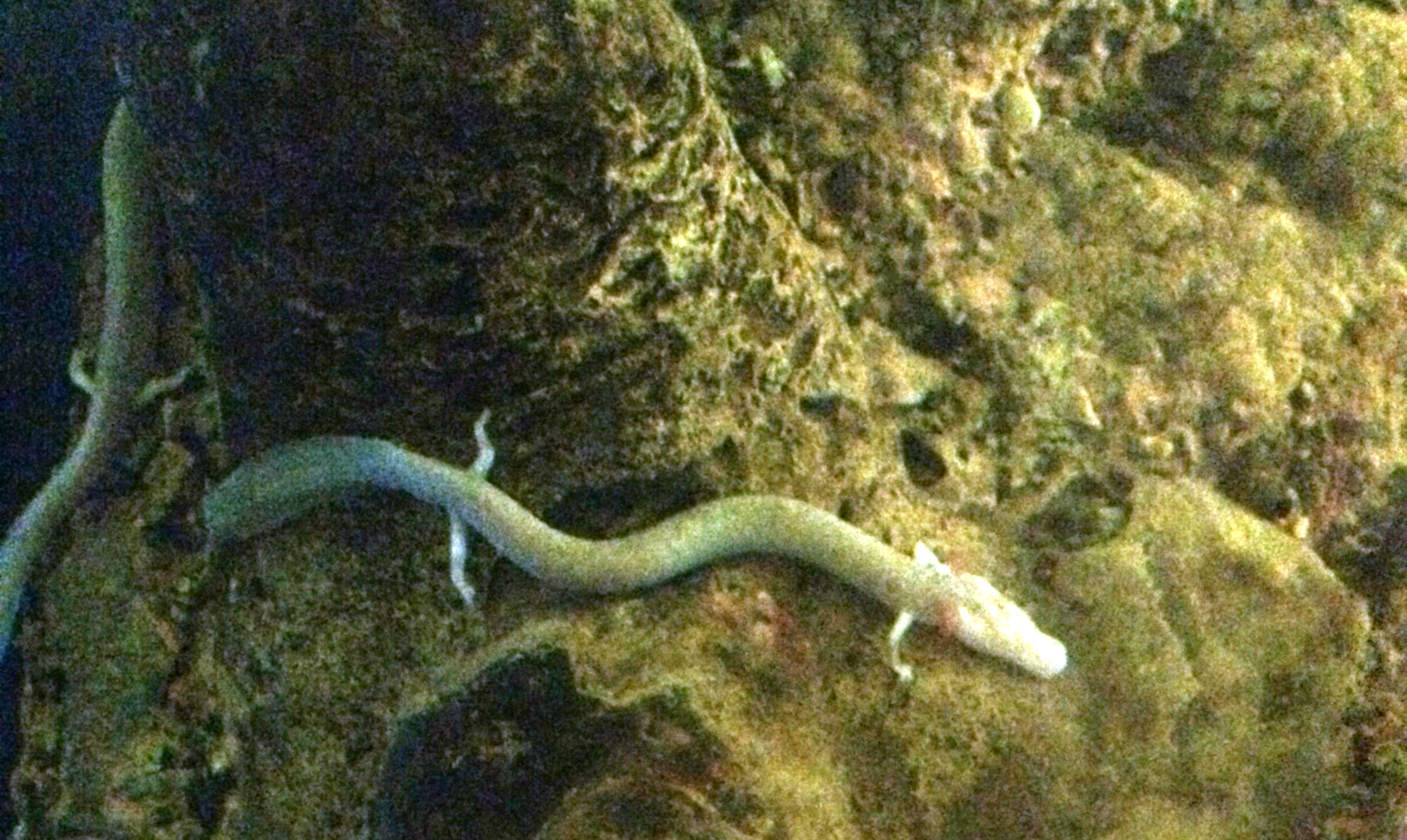 Proteus anguinus - or the "human Fish" - is a rare and endangered species in the Postojna Cave, Slovenia.